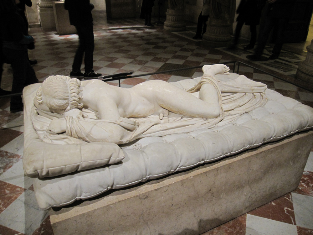 On loan from Villa Borghese in Rome, this Hermaphrodite is a 16th Century Italian reproduction of a 1st Century AD Roman original. As the name attests, the profile and proportions of the figure are very feminine, and the only aberration to that presentation is the male genitalia. And honestly, proportionally speaking, the penis on this Hermaphrodite is bigger than the manhoods on the nearby nude warriors and Roman gods. The loveliest nymph at the Louvre turns out to also be the most phallic! Honestly I expected the presentation to be more ambiguous. (But indeed, various descriptions of Hermaphrodite indeed do depict someone who is very feminine in appearance but has male genitalia.) Throughout my European journey, I had been referring to male nudes as "teabaggers," using the popular nickname of the US reactionary Tea Party movement followers but in a more common slang meaning of the word, and to female nudes as "carpetmunchers" as a contrast. For this Hermaphrodite, I am keeping the teabagger theme - and referring to him as "Ann Coulter," after the US reactionary political commentator, who not only is known for her inflammatory rhetoric against women (and loves to do upper-class white gay men's bidding), but also has a very masculine appearance, complete with a huge Adam's Apple, leading many to speculate that she is biologically and temperamentally male.